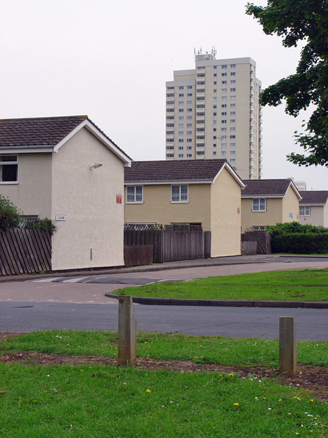 Little and large, Orchard Park Estate, Hull, East Riding of Yorkshire, England.The street with the two storey properties is Caldane, and in front is Orchard Park Road.